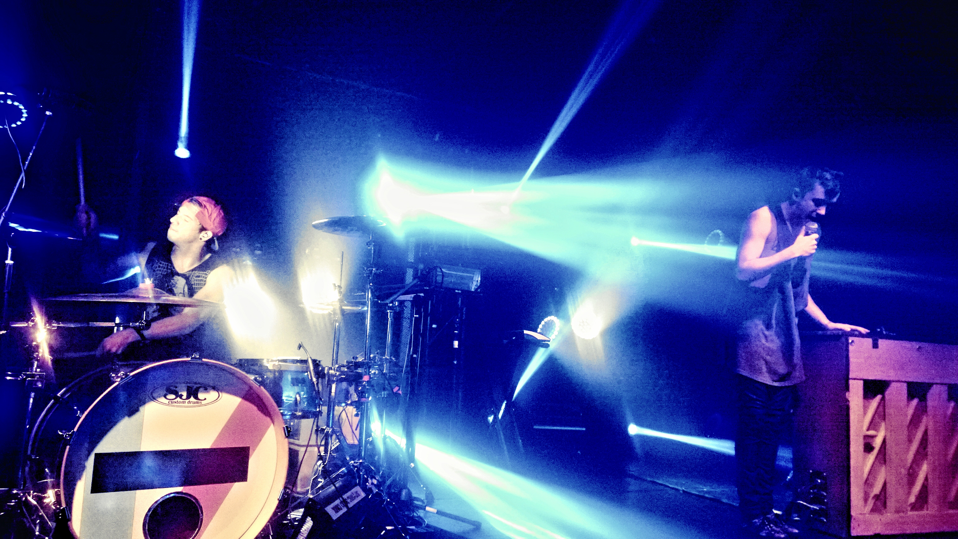 Twenty One Pilots, Portsmouth Wedgewood Rooms